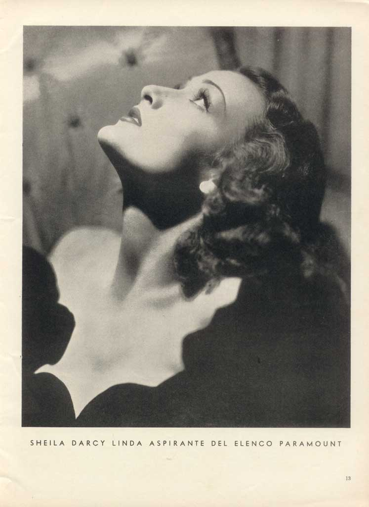 Publicity photo of Sheila Darcy for Argentinean Magazine. (Printed in USA)